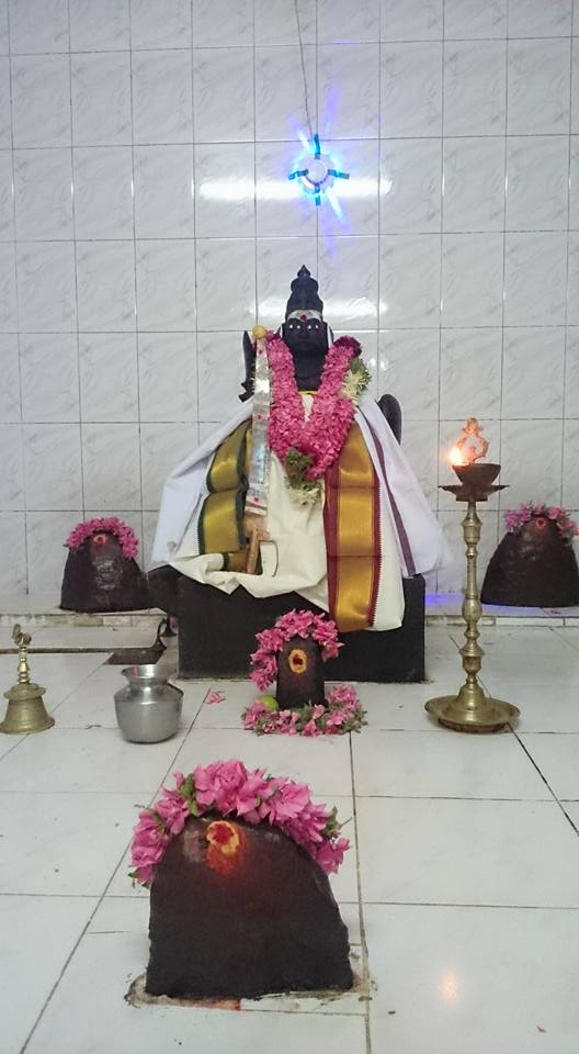 Sri Muthukumaran is lord Murugan son of lord Shiva Parvathi devi and younger brother of lord Ganesh. One of the oldest temple in Vennandur. Is located heart of the town.